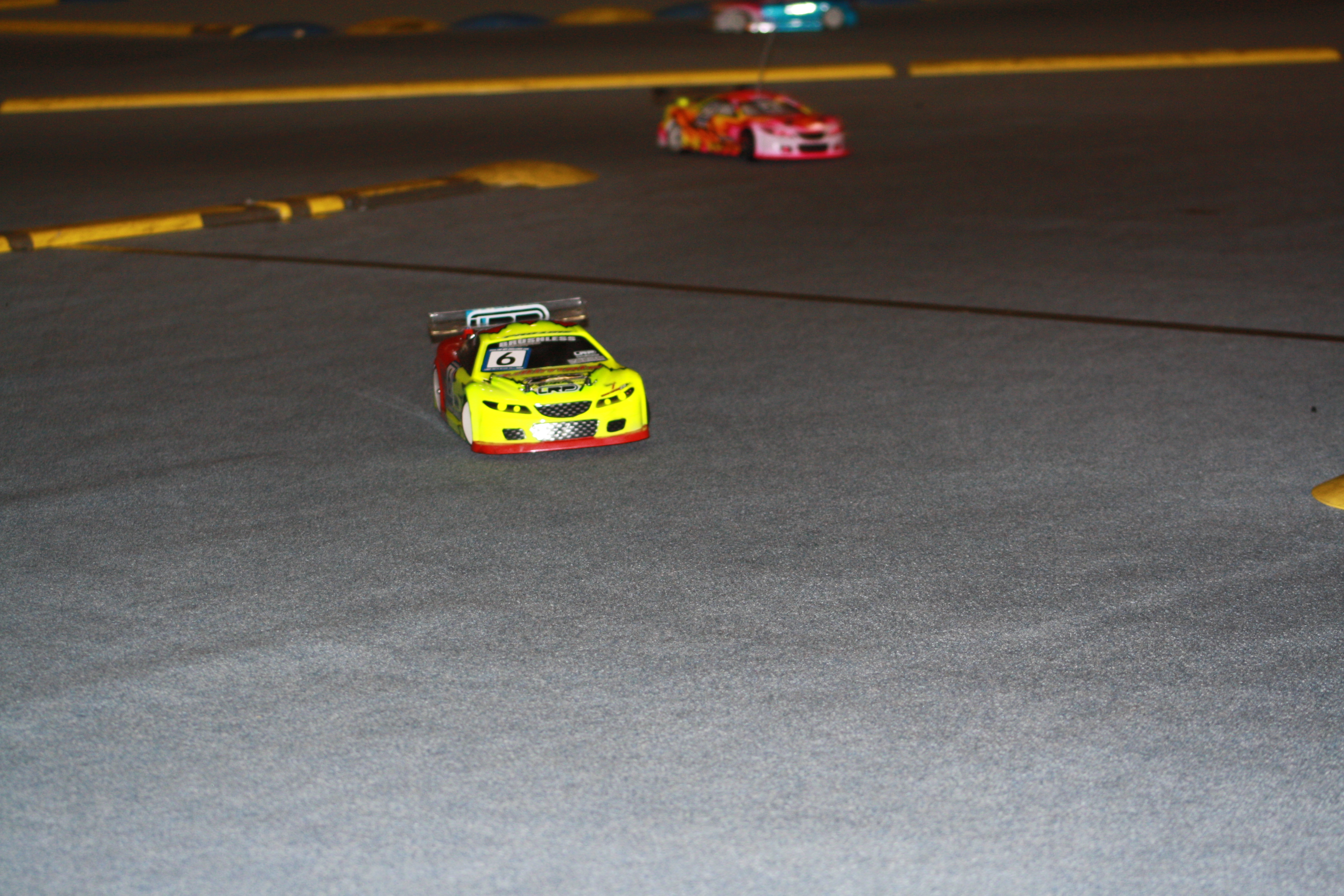 RC model car racing in Hrotovice.